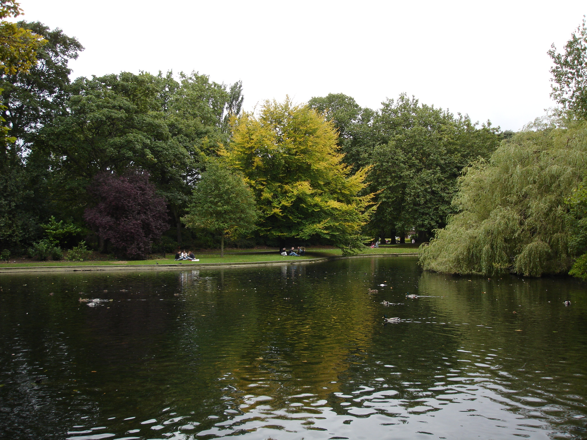 St Stephen's Green in Dublin (Ireland). Photograph by comakut.